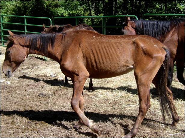 This horse is a 1 on the Henneke body condition scoring scale